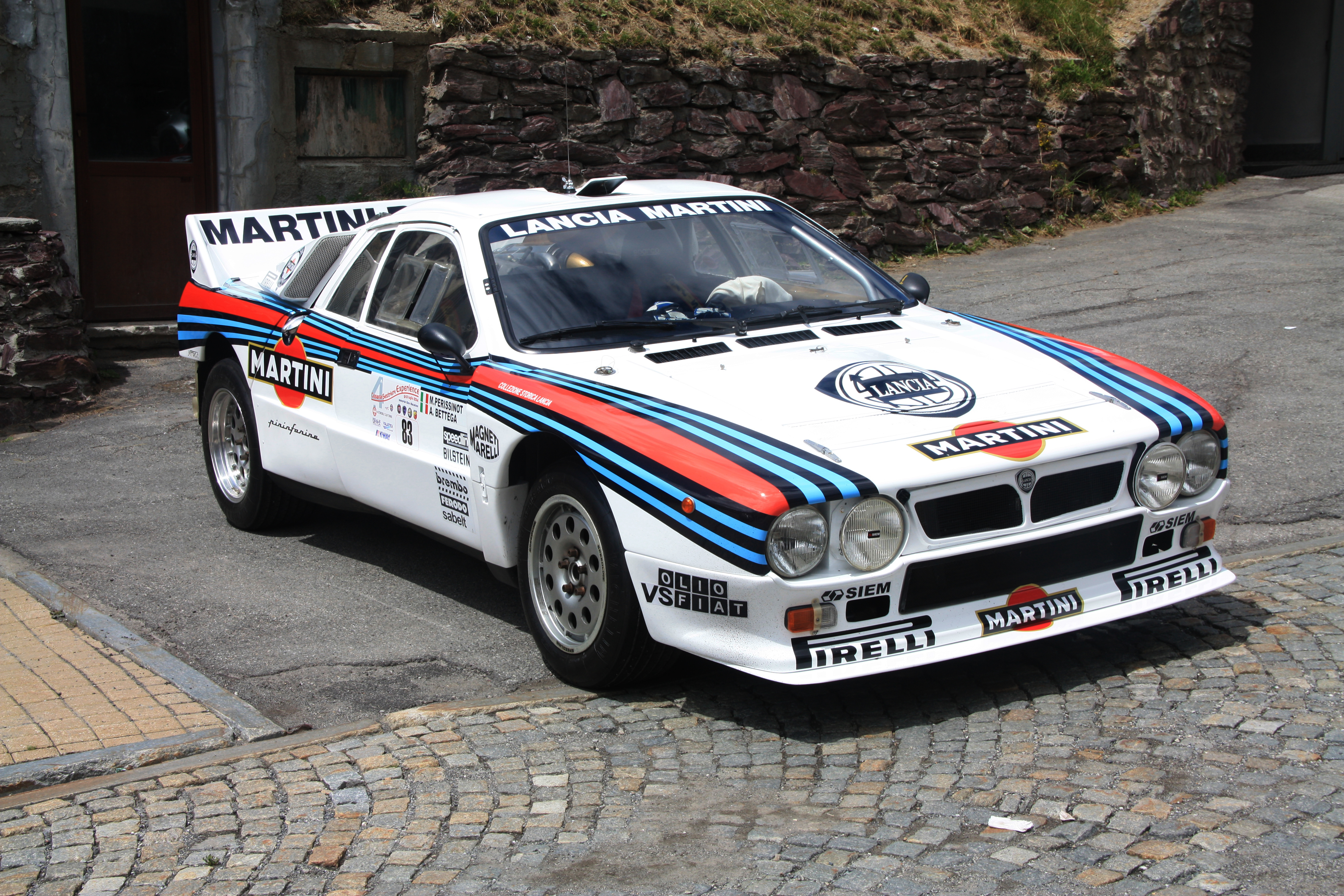 1983 Lancia Rally 037 at the 4th Cesana-Sestriere Experience, 13 July 2014.